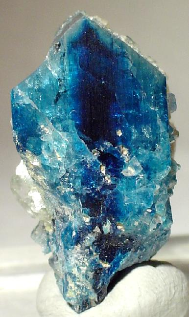 Euclase Locality: Lost Hope Mine, Mwami, Karoi (Urungwe; Hurungwe) District, Mashonaland West, Zimbabwe (Locality at ) A highly lustrous, sharp and gemmy euclase crystal with vivid shades of blue from the late 1980’s finds. These are immensely desirable for the color, and extremely rare to own, in crystals of this size. Now, more have been found in recent re-working at th emine but they are either smaller in general if of this form, or larger but of a blockier habit. Al went for display aesthetics first and foremost and from the front, this one is a stunner with teh richest blue color I have ever seen in a euclase from here. It does have some contacts on the lower half, but no damage per se. 3.0 x 1.6 x 1.6 cm